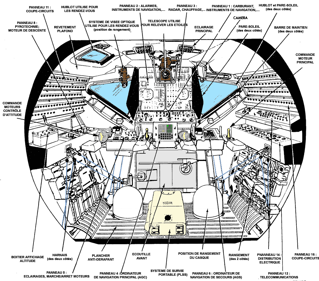 Apollo Program; drawing of lunar module spacecraft : inside view (french)